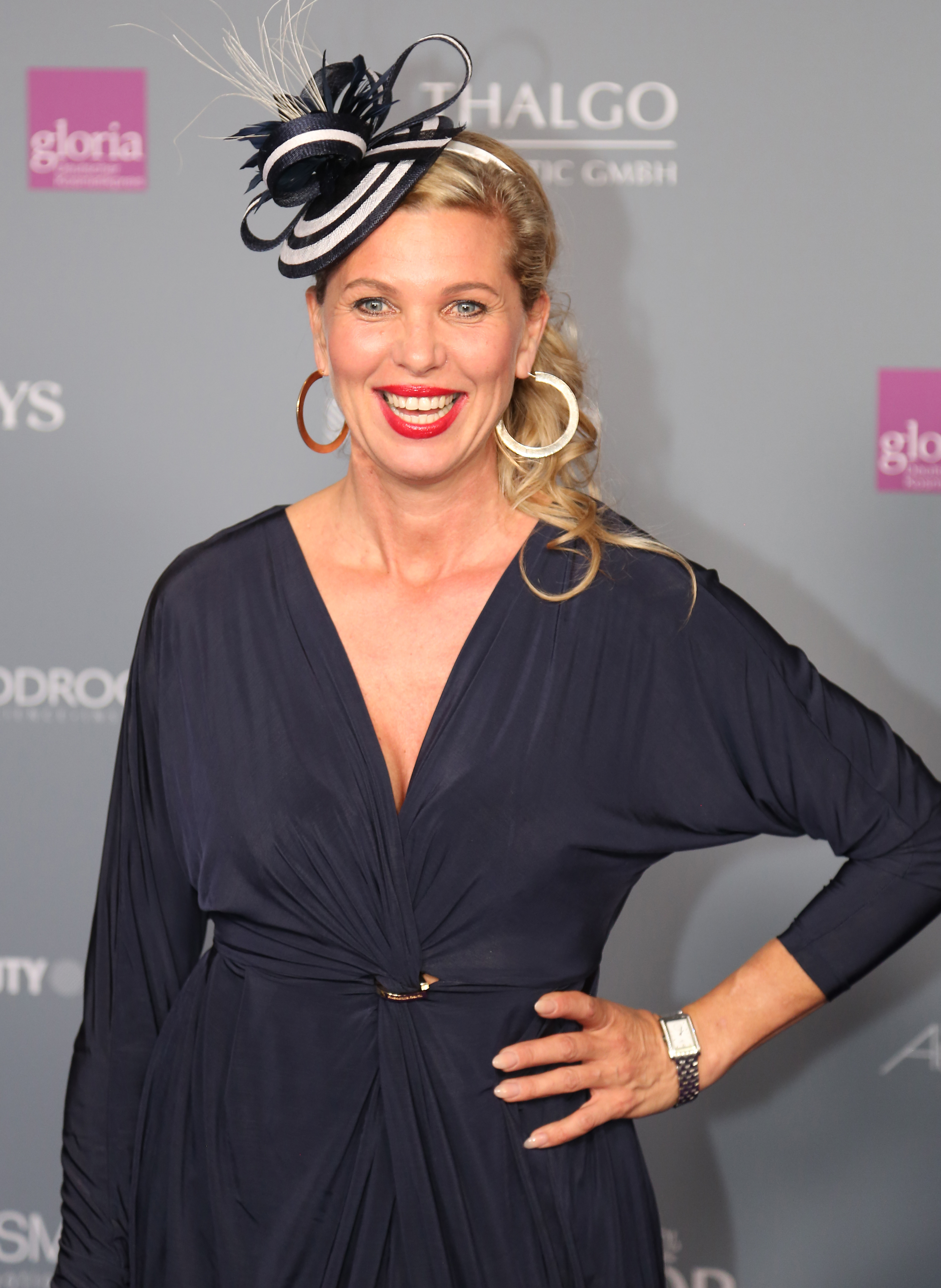 Maja von Hohenzollern (2017)